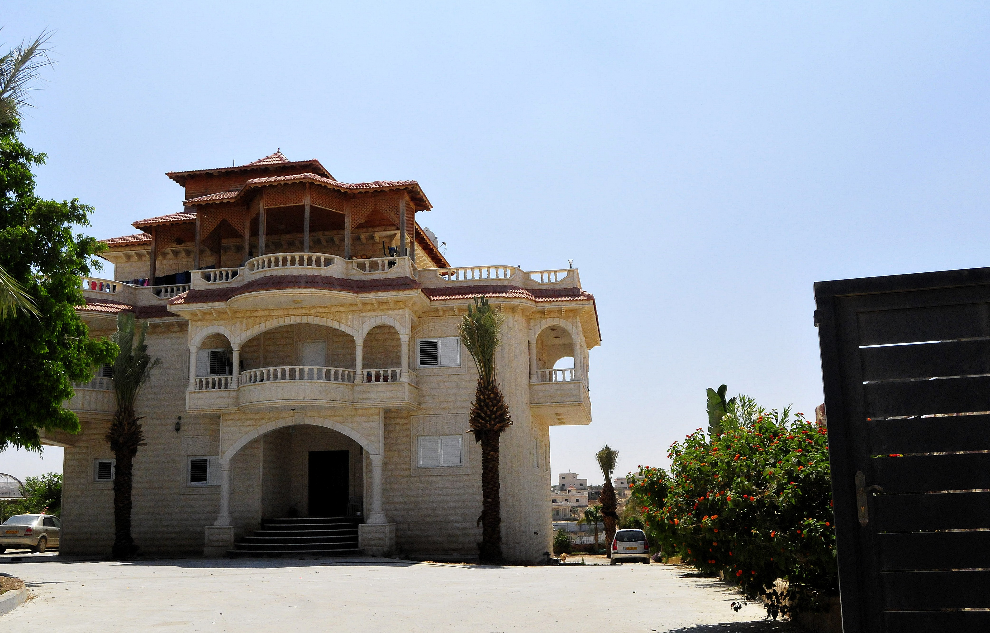 A private house in al-Sayyid